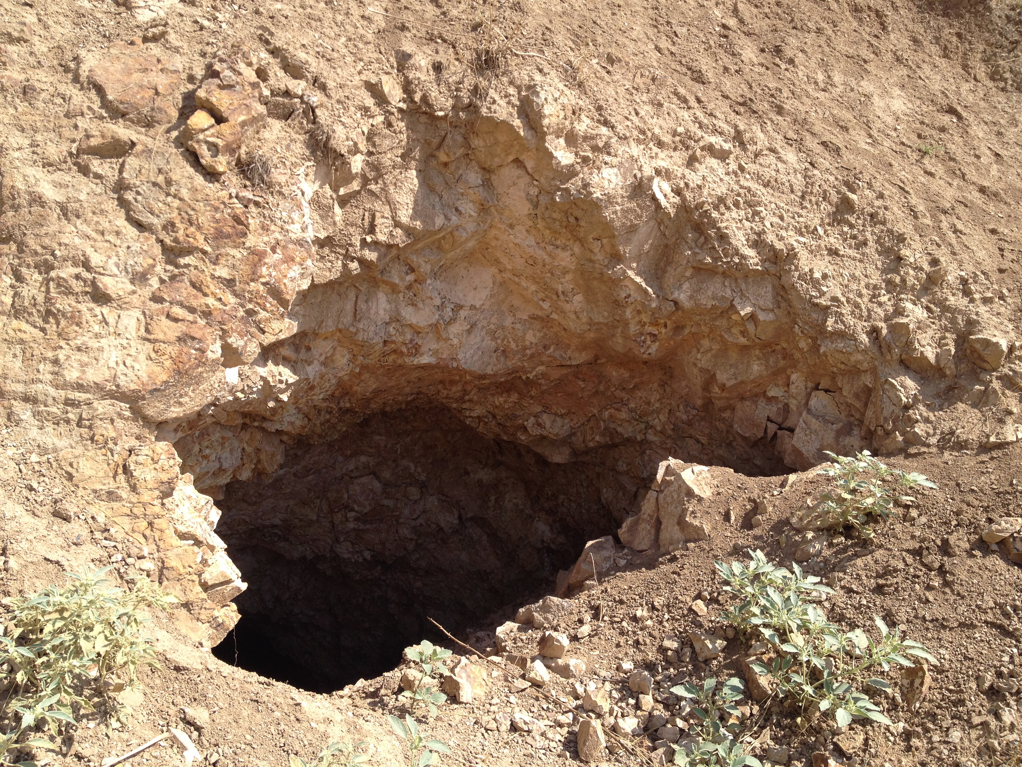 Adit, ancient mine Ungurli-kan